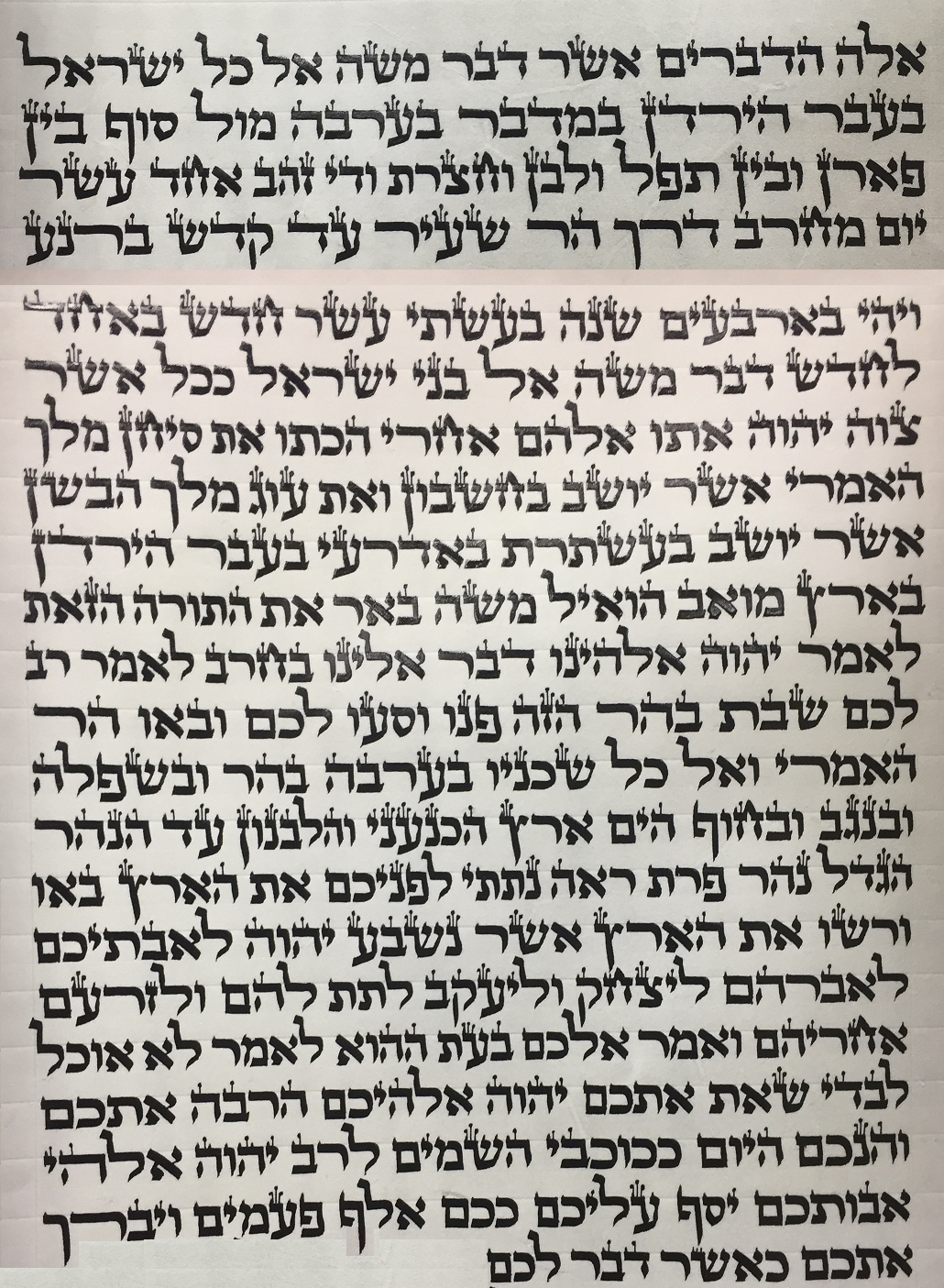 Hebrew text from the Bible